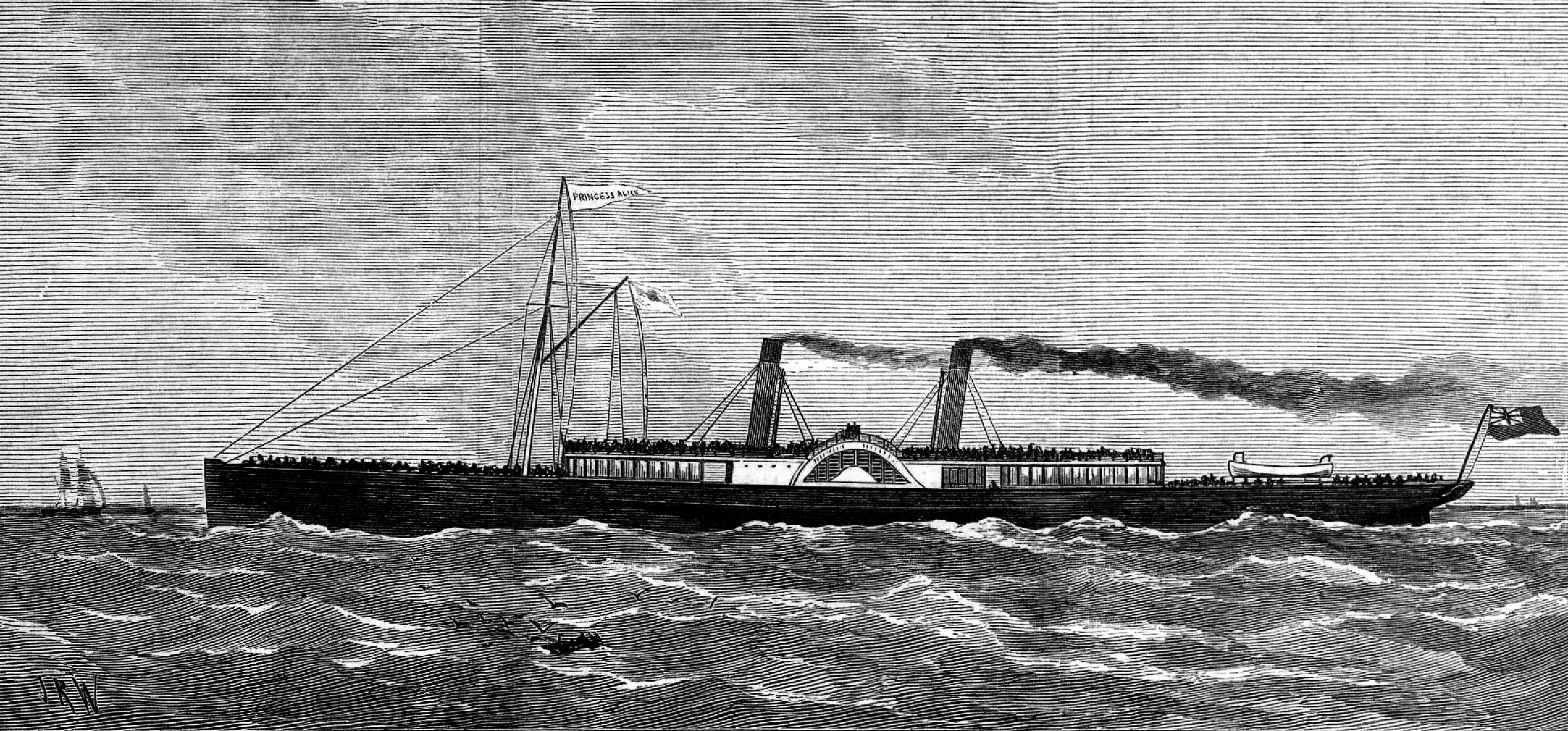 "The Saloon Steam-Boat Princess Alice"